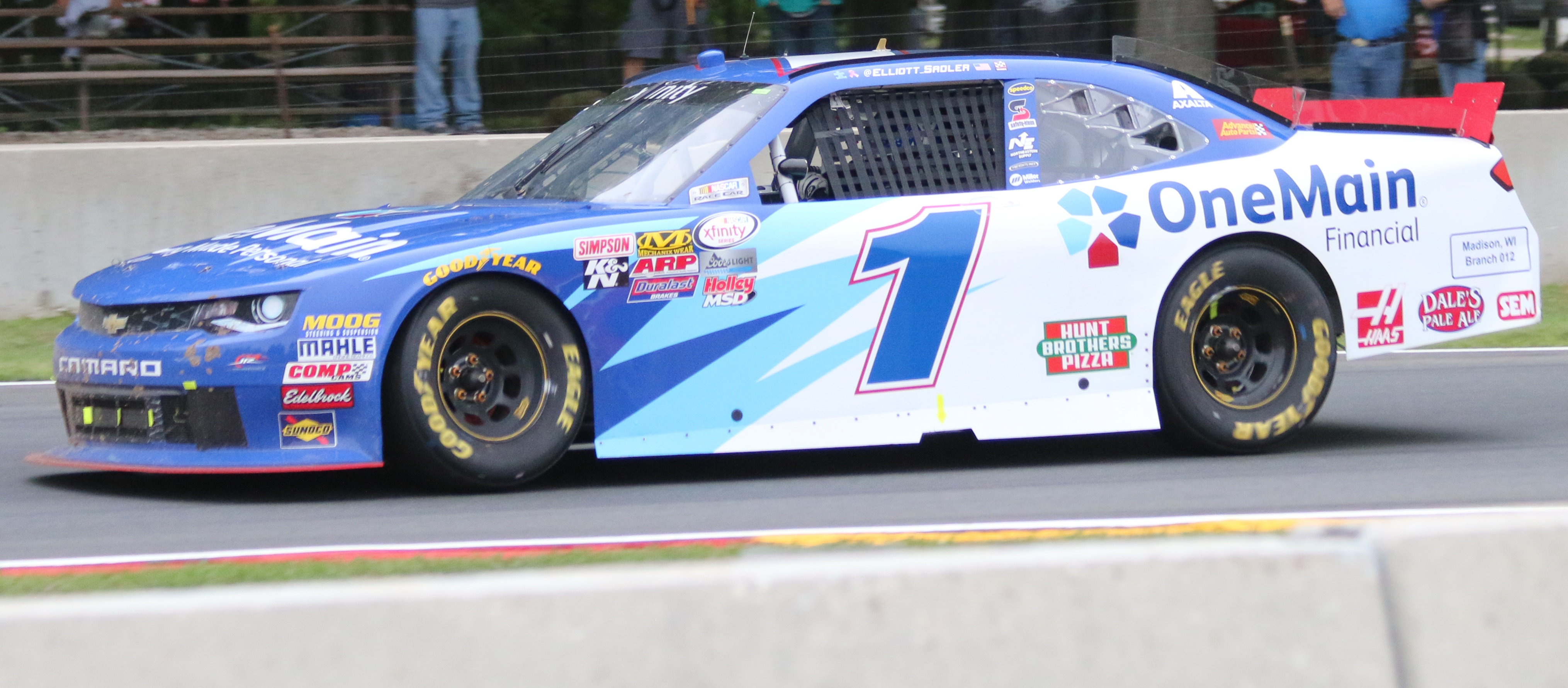 The Chevrolet Camaro of Elliott Sadler at the NASCAR Xfinity Series Road America 180.